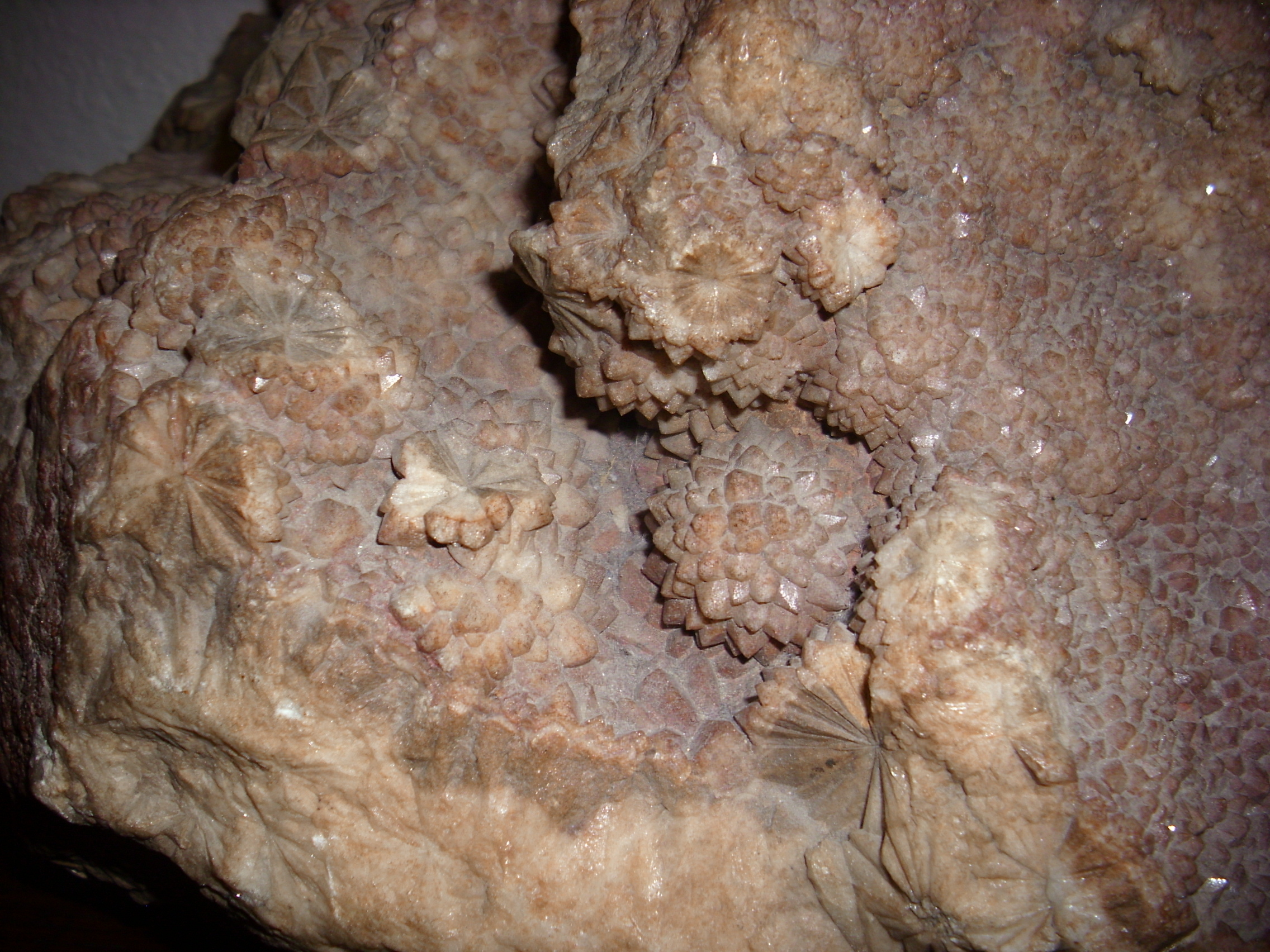 "Star quartz", unique form of quartz. Found on hill Straznik by village Perimov (Czech republic). Exhibited in Krkonosske muzeum Jilemnice.